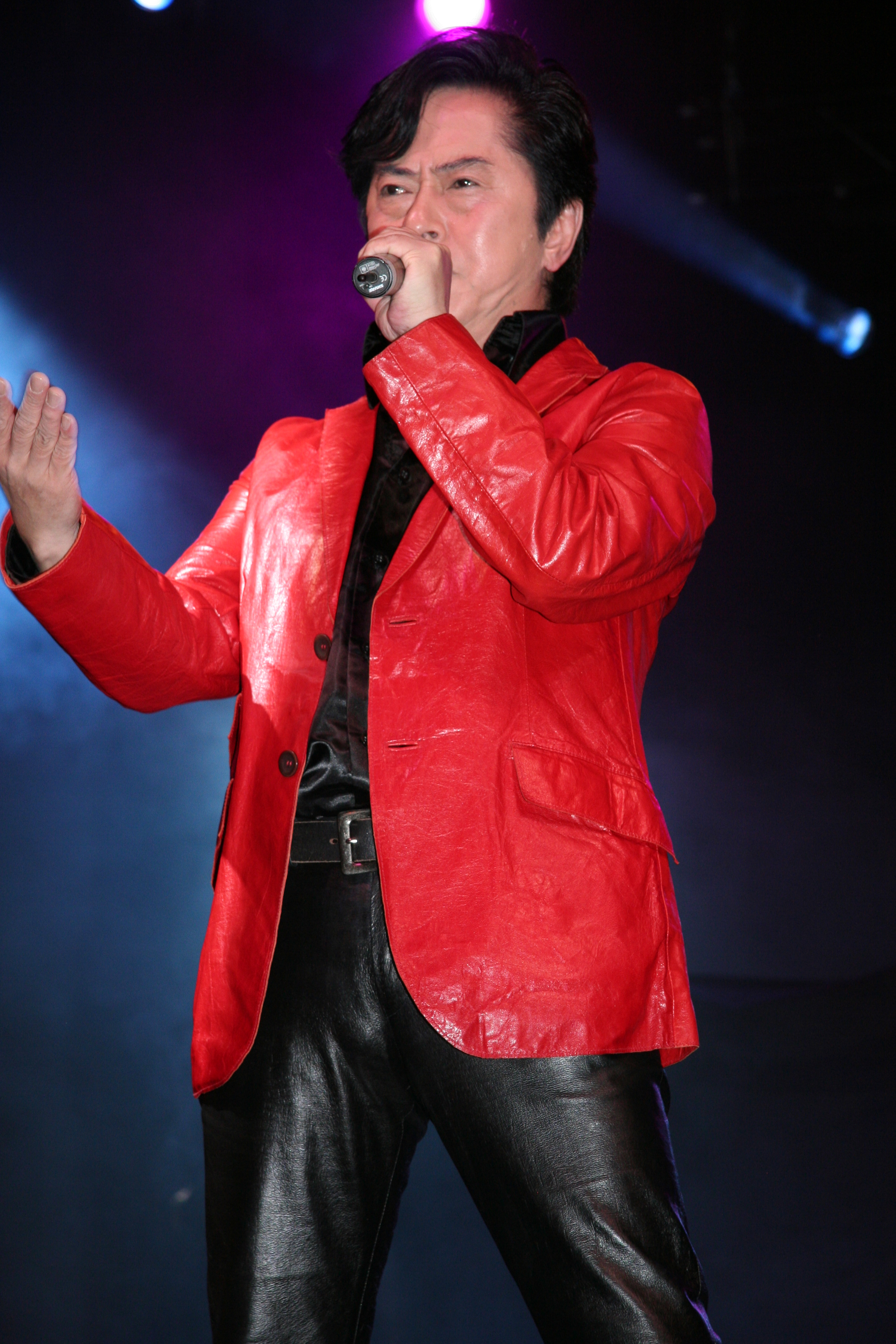 Ichiro Mizuki live at Japan Expo 2007 (Paris, France).